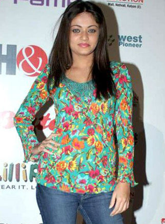 Sneha ullal launch of satish reddy's "house of horror"